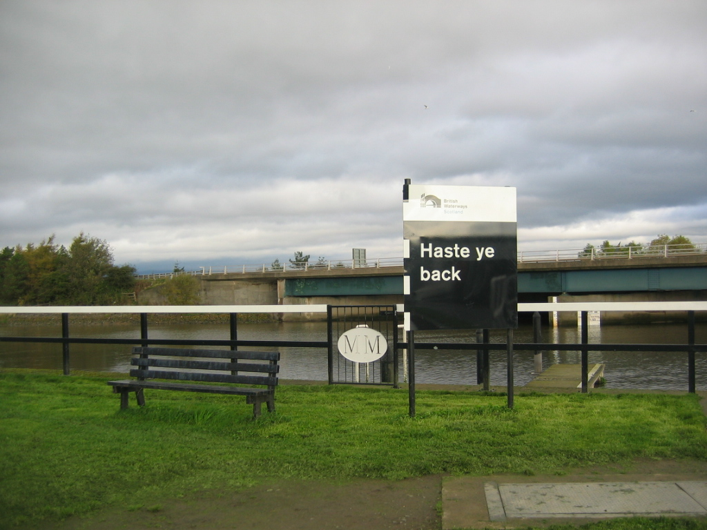 Forth & Clyde canal Sea Lock, Scotland